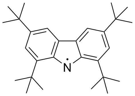 1,3,6,8-tetra-tert-butyl-carbazyl radical